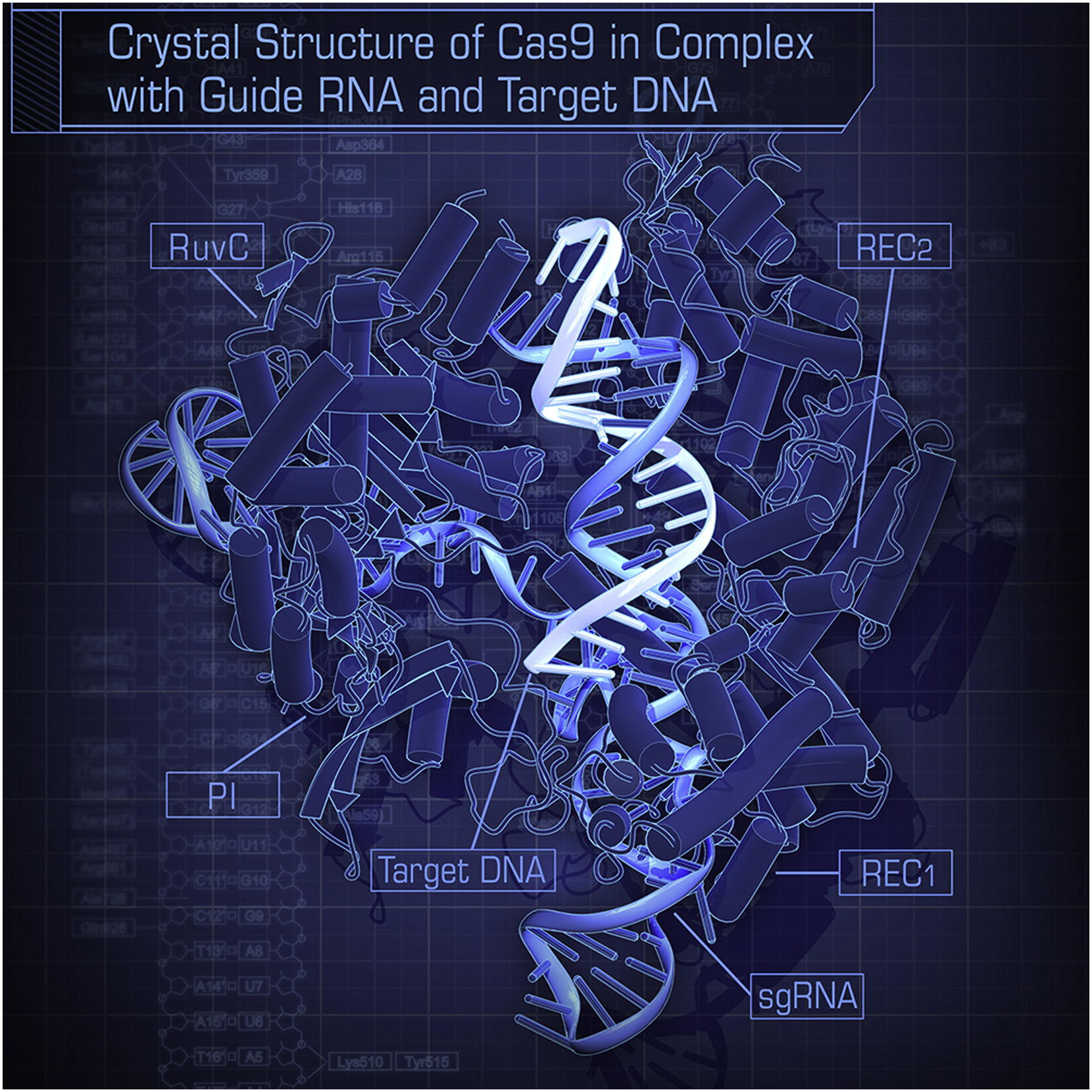 the crystal structure of Streptococcus pyogenes Cas9 in complex with sgRNA and its target DNA at 2.5 A ˚ resolution.